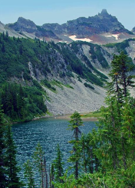 Unicorn Mountain towers above Snow Lake in Mount Rainier National Park, Washington, USA